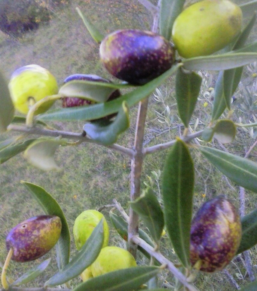 "Ravece" olive cultivar - Ariano Irpino, Italy